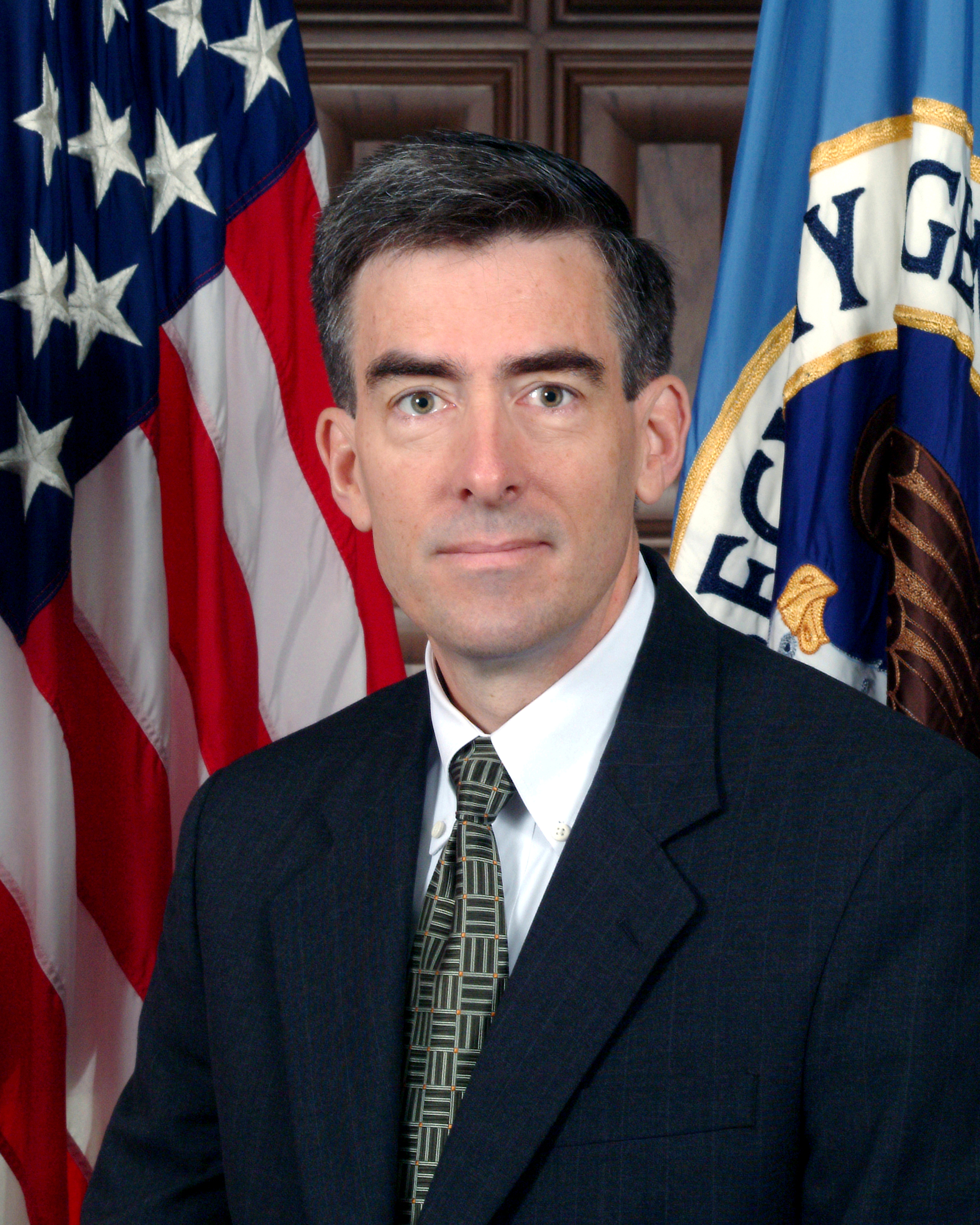 John C. Inglis, official National Security Agency portrait.